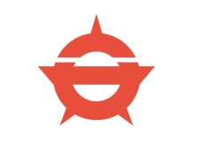 Flag of Ando Nara